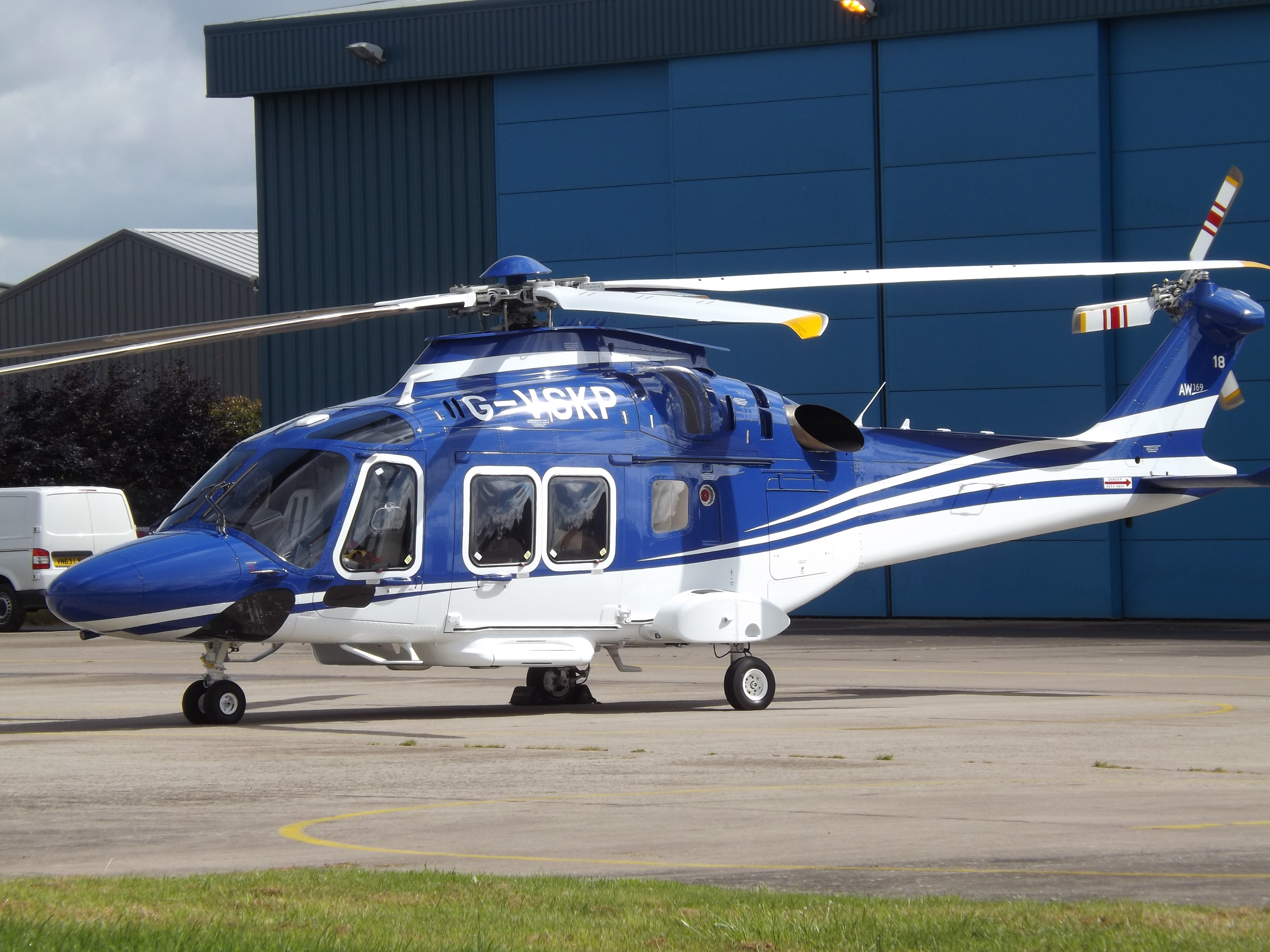 At Gloucestershire Airport.